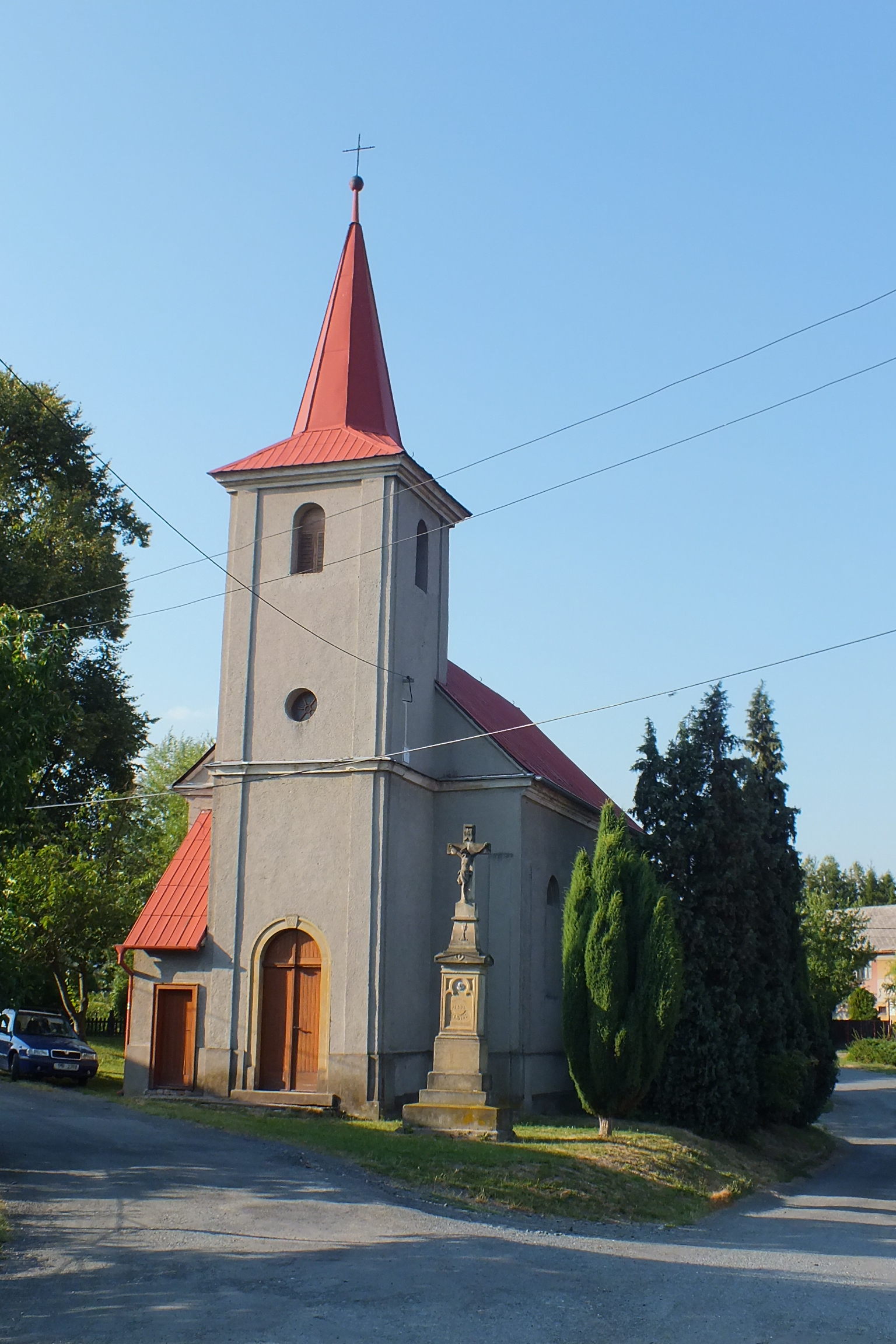 Holy Trinity Chaple in Posluchov, the Czech Republic.